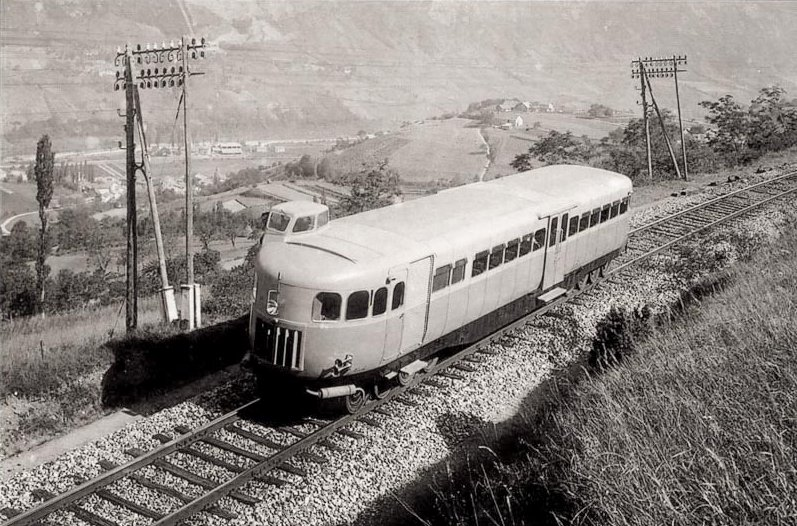 Micheline Type 22 with 56 seats and equipped with bogie each with four axle.